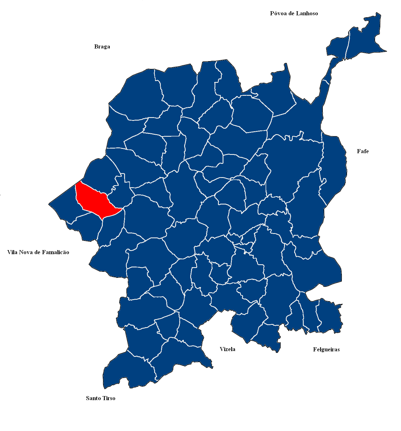 Map of Oleiros parish, Guimarães Municipality, Portugal